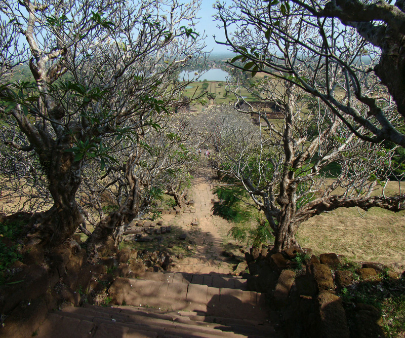 Vat Phou, Champasak Province, Laos.